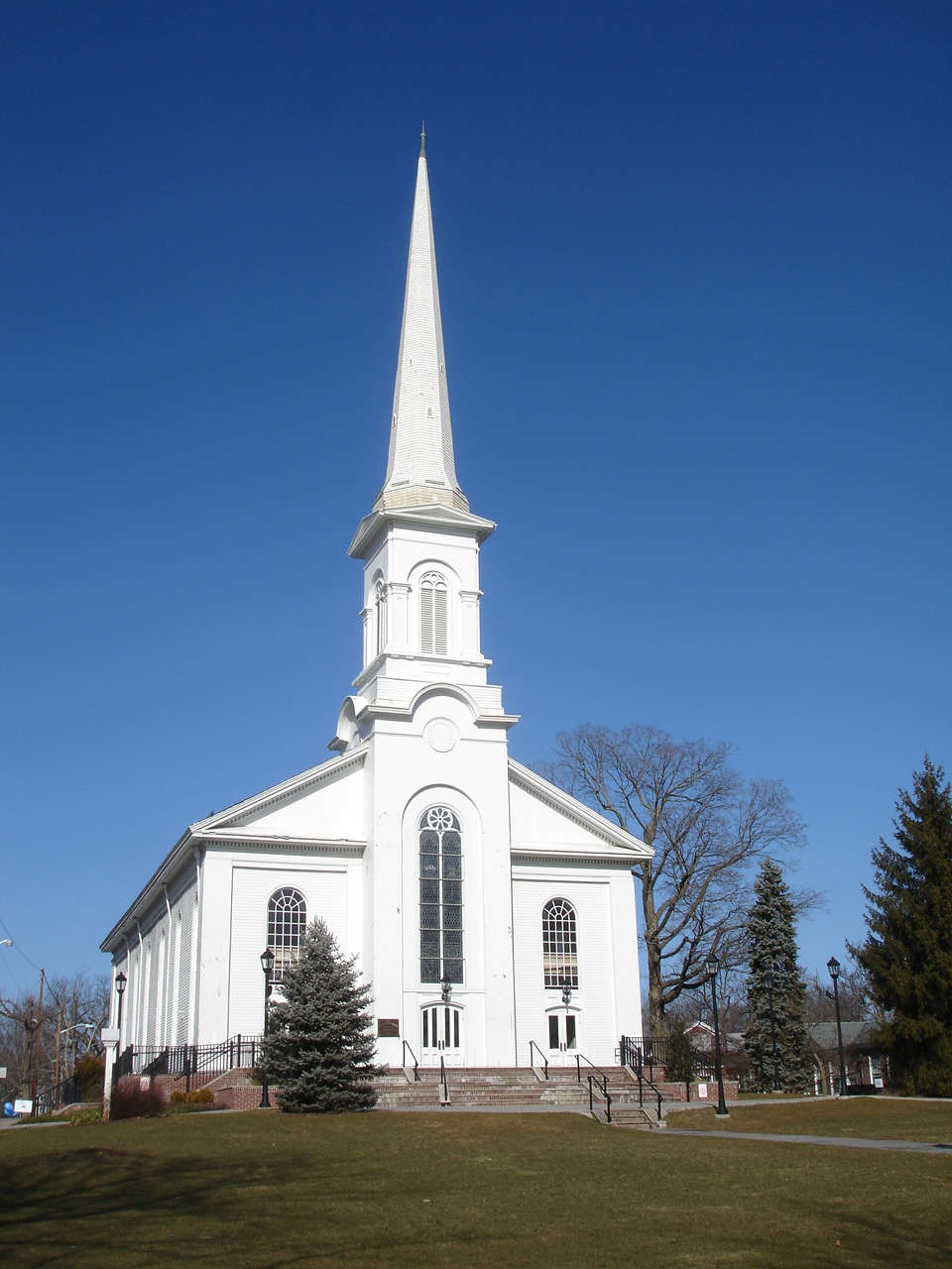 I took this photo of the Westfield Presbyterian Church myself on January 28, 2012.